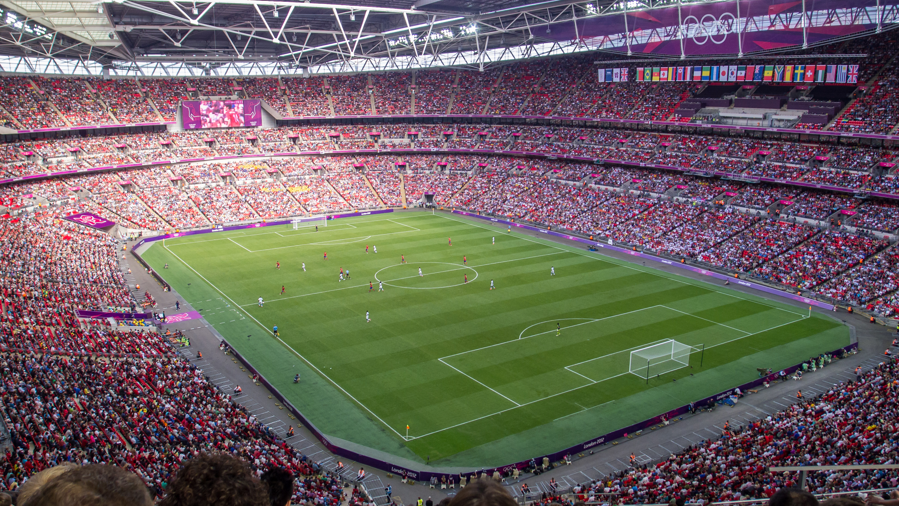 London, Wembley Stadium